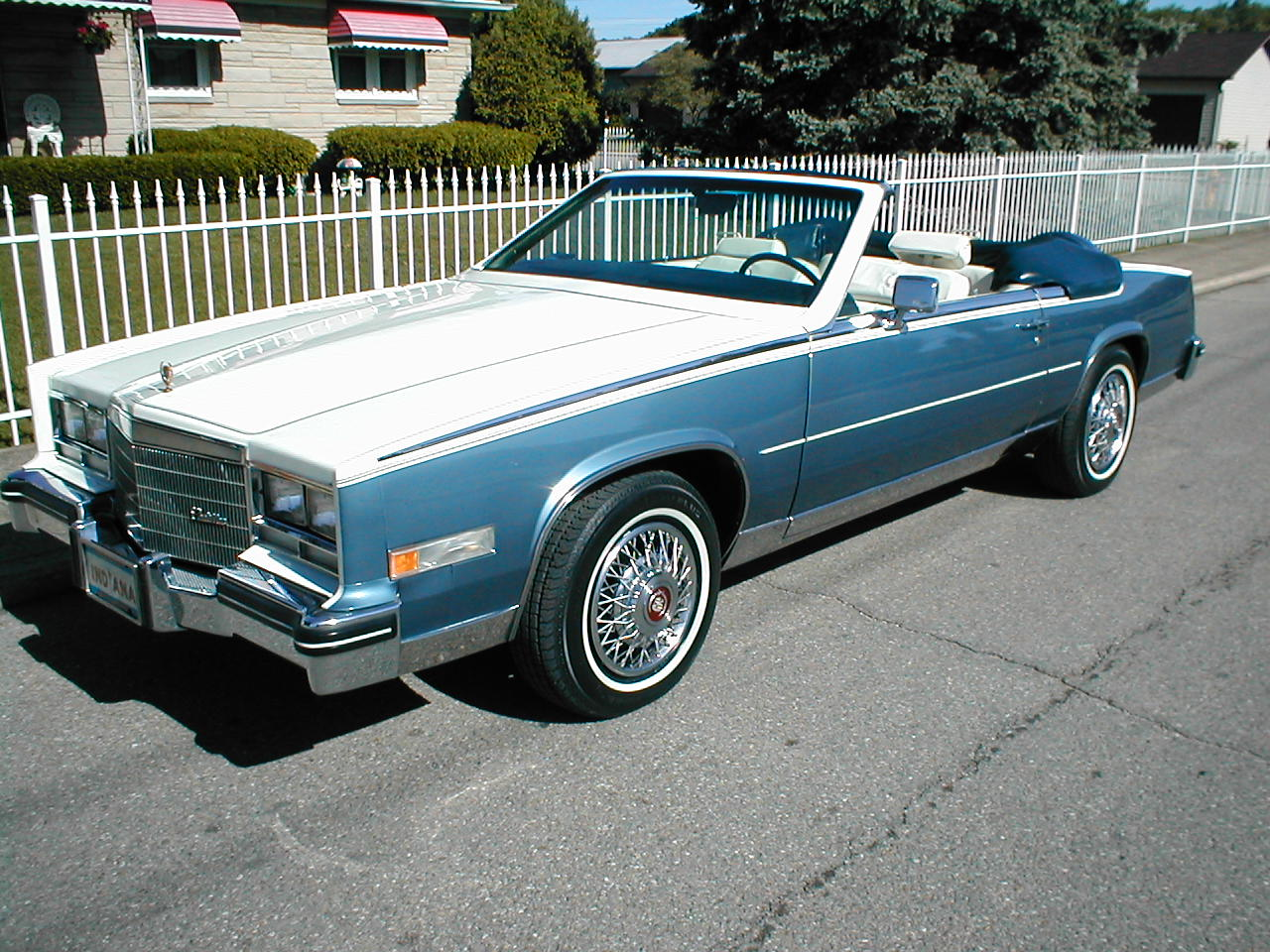 personal photo of my own car taken with my own digital camera--this photo depicts an example of the convertible cadillac eldorado, introduced in 1984-1985 (referred to in the text)